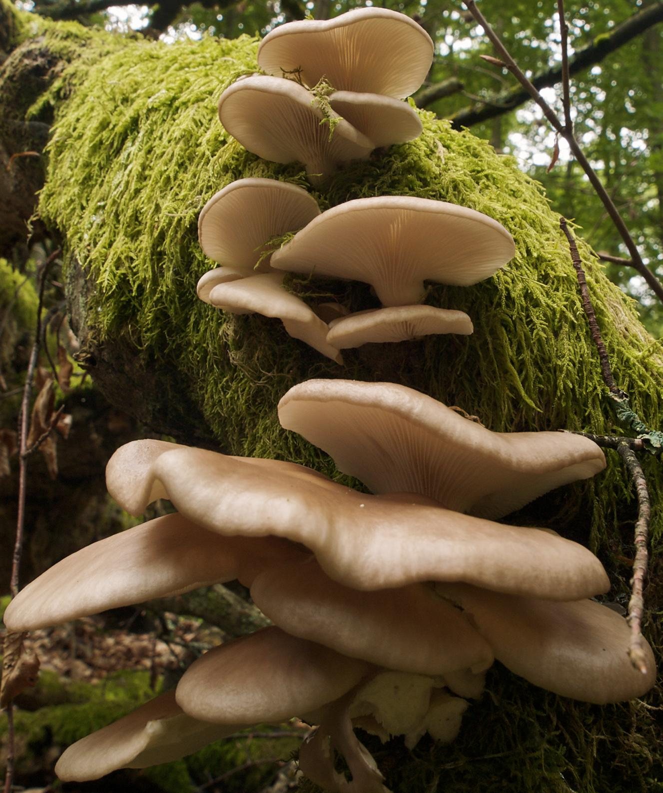 fungi